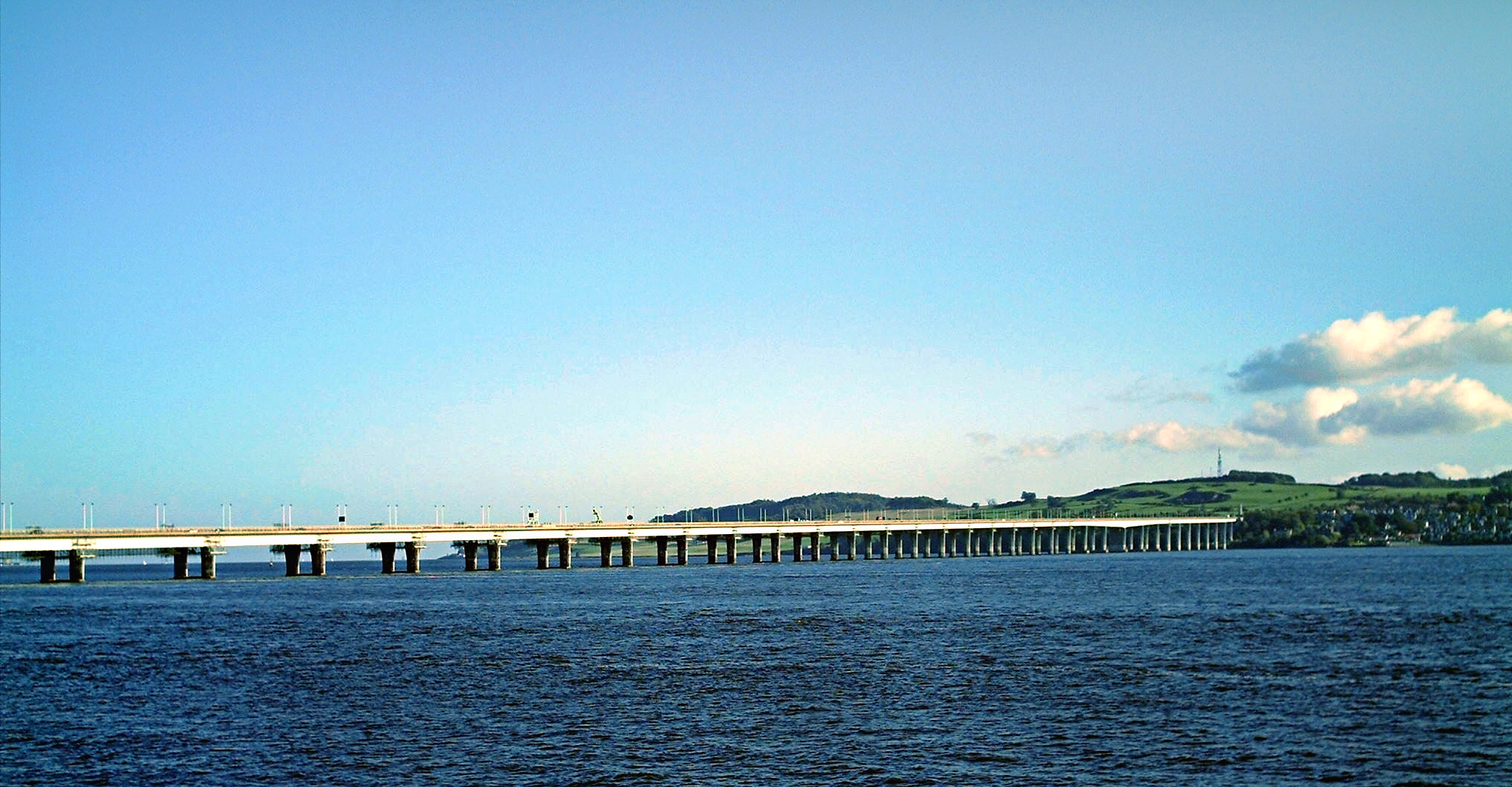 Tay Road Bridge, River Tay, Dundee, Scotland